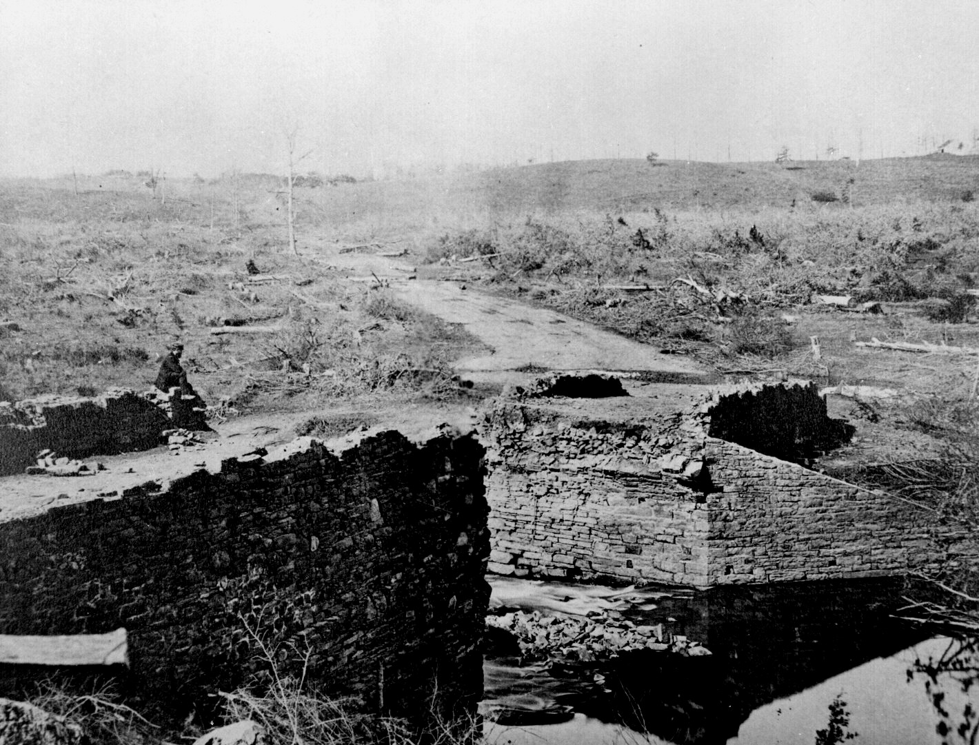 Ruins of Stone Bridge, Bull Run, Virginia, March 1862.